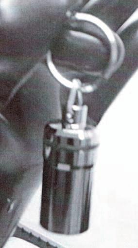 This metal vial was found in an envelope addressed to the U.S. Department of Transportation in Greenville, South Carolina on October 15, 2003. The vial contained the biotoxin ricin.